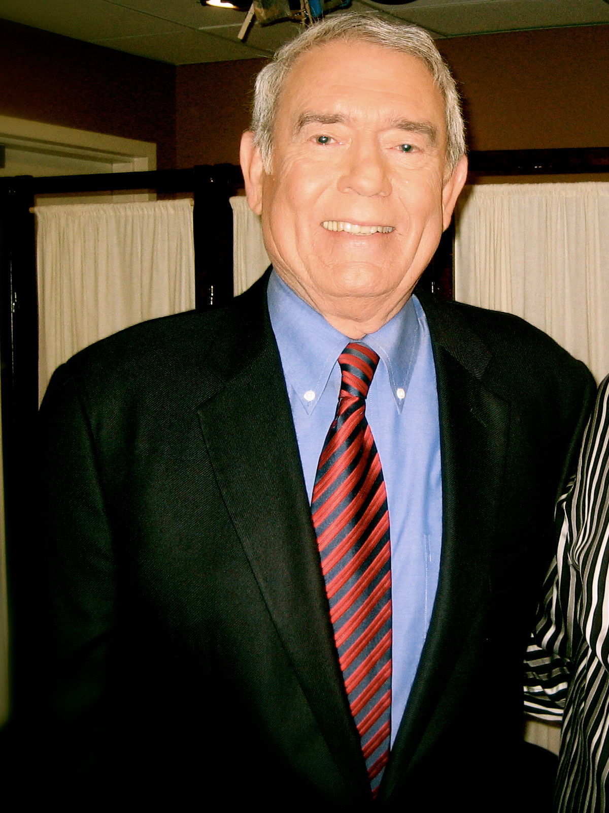 Cropped and modified photo of Dan Rather